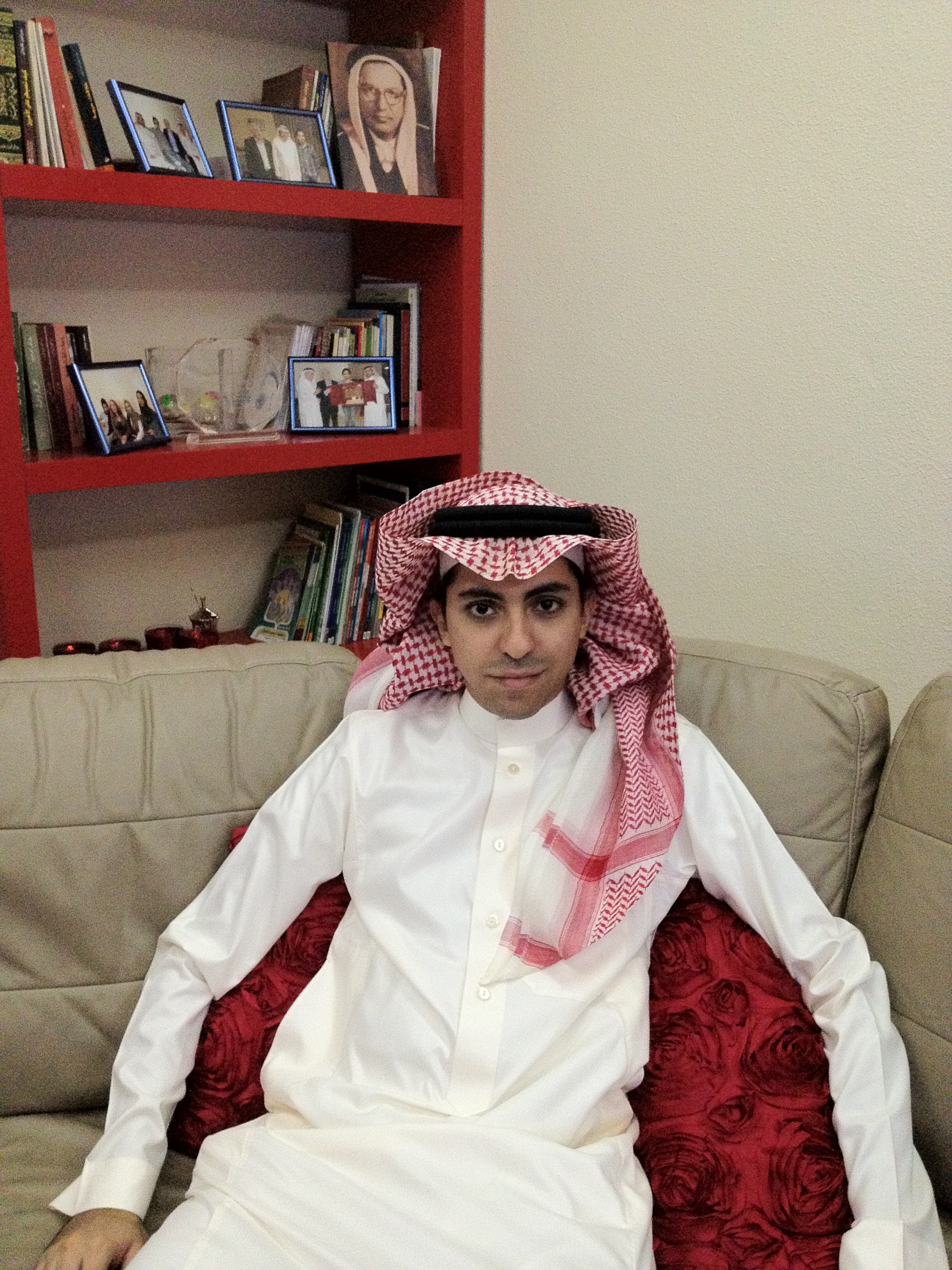 Picture of Raif Badawi (Arabic: رائف بدوي), a Saudi Arabian writer and activist.